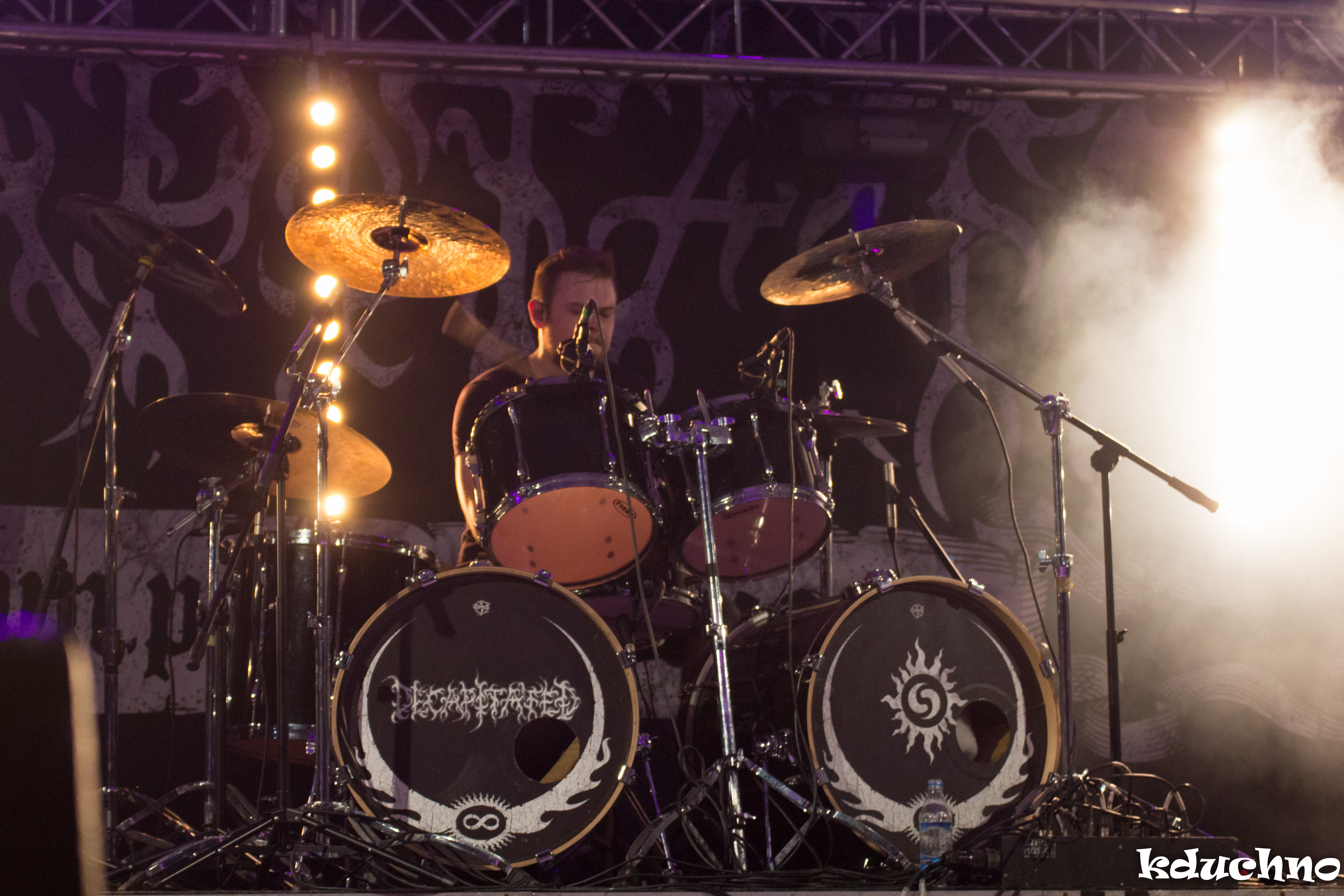 Michał Łysejko of Decapitated